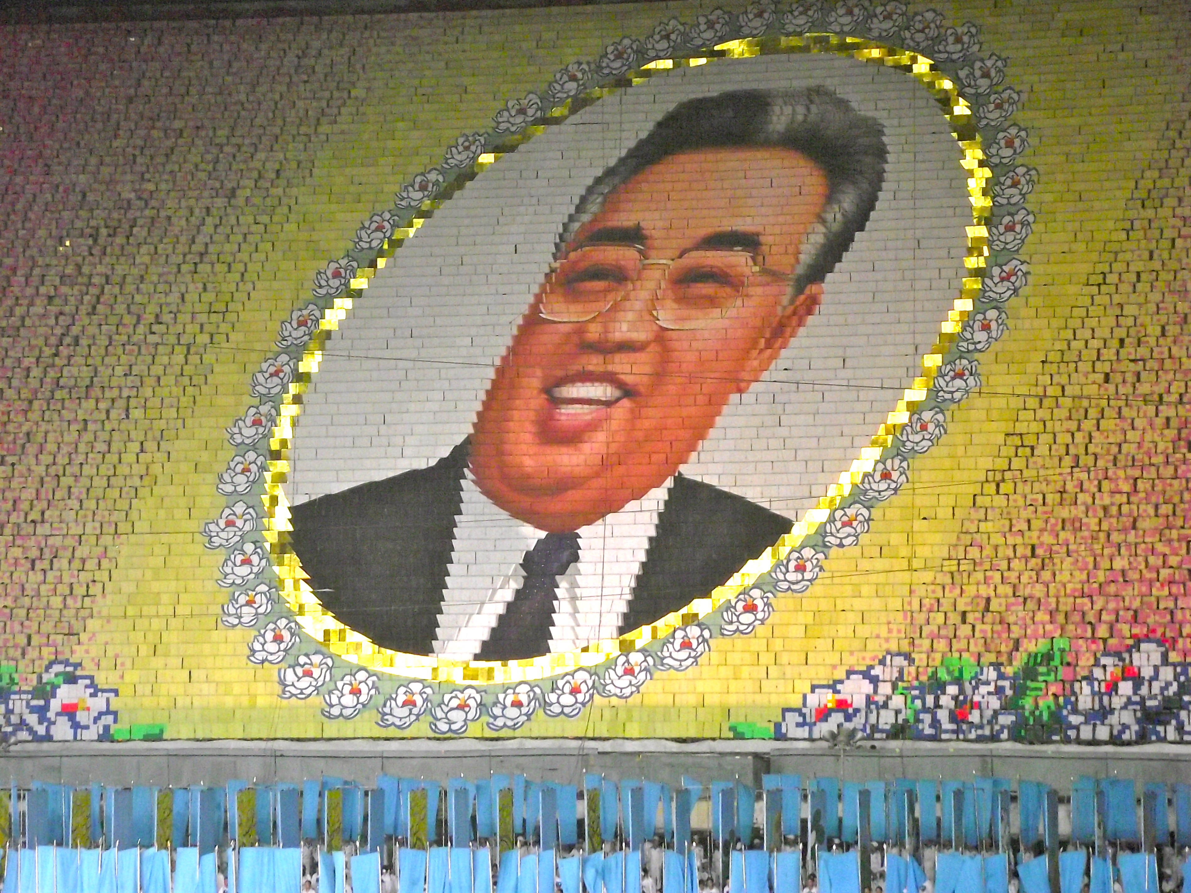 Image of Kim il-Sung at the 2011 Arirang Mass Games